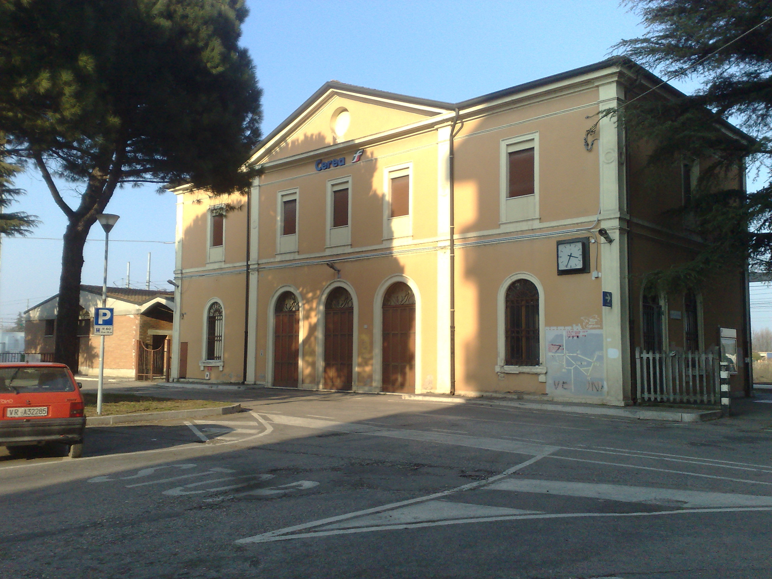 Facade of Cerea's train station